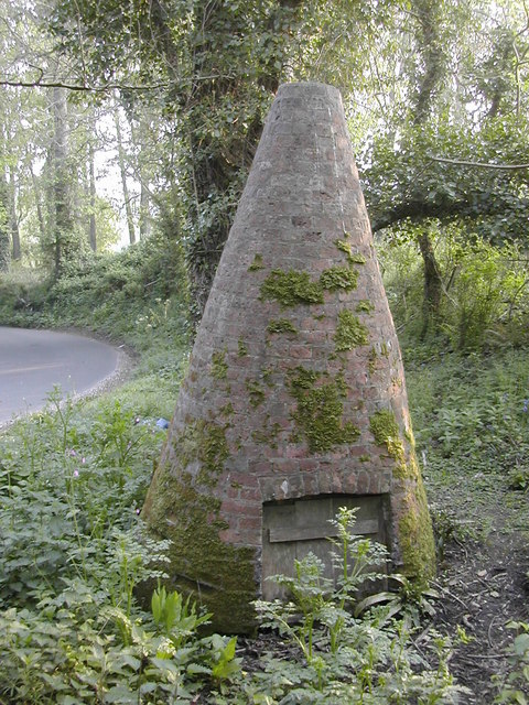 Picket Well I, too, could not work out what this really was. This shows the kiln-style cowl from a different perspective.